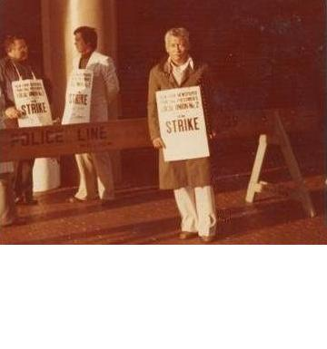 Rudolfo A. Fernandez, Sr. at a Labor Strike in New York City circa 1978